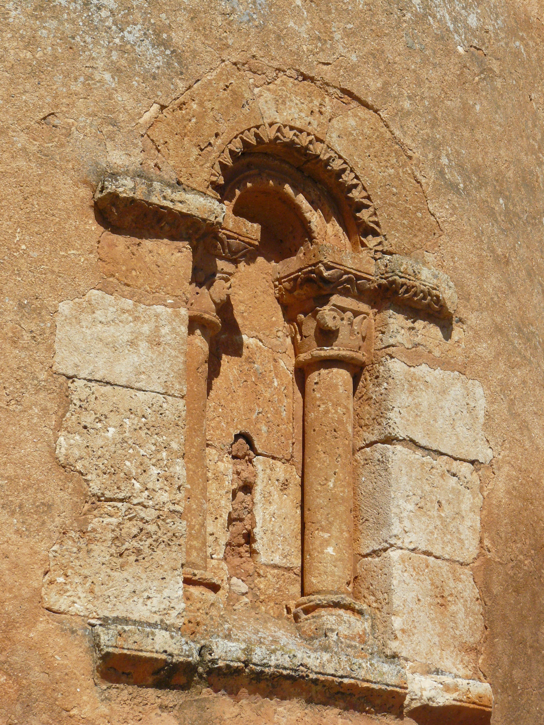 Church of San Juan Bautista, Matanza de Soria, apse arch.